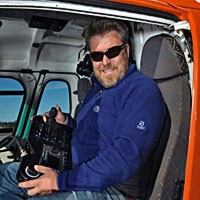 Leif Johan Holand, Aerial Manager and Cineflex photographer at Fuglefjellet.